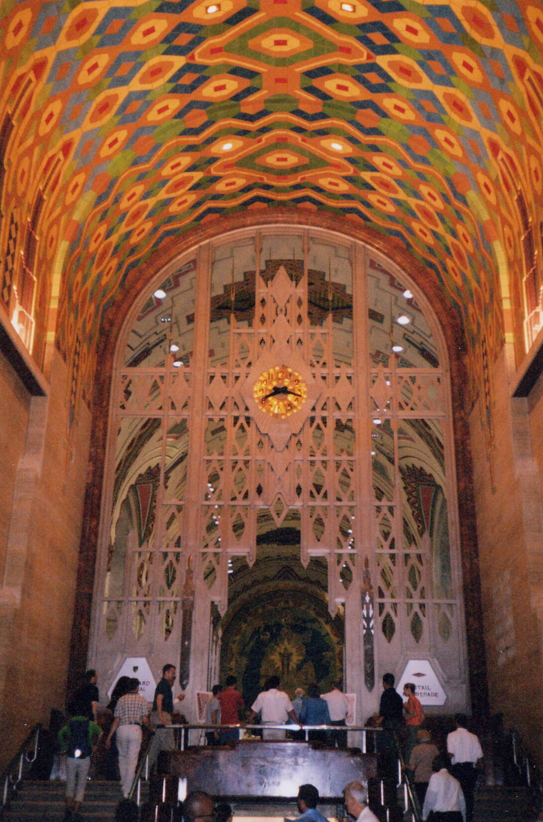 Guardian Building entrance lobby — with two-story Art Deco entrance screen of Monel metal, and walls and vaulted ceiling decorated with mosaics and Pewabic Pottery and Rookwood Pottery glazed tiles. The Ezra Winter mural, Michigan, can be seen in the middle, through the metal grill. The 1929 Art Deco style Union Trust Building—Guardian Building is located at 500 Griswold Street, Downtown Detroit, Michigan. Designed by Wirt C. Rowland of Smith, Hinchman and Grylls architects, and built by Gorham Co. of Providence, Rhode Island (1928-1929). The building's interior, which gave rise to the building's nickname "Cathedral of Finance," has undergone a full restoration (2006). A contributing property in the Detroit Financial Historic District, and on the National Register of Historic Places.